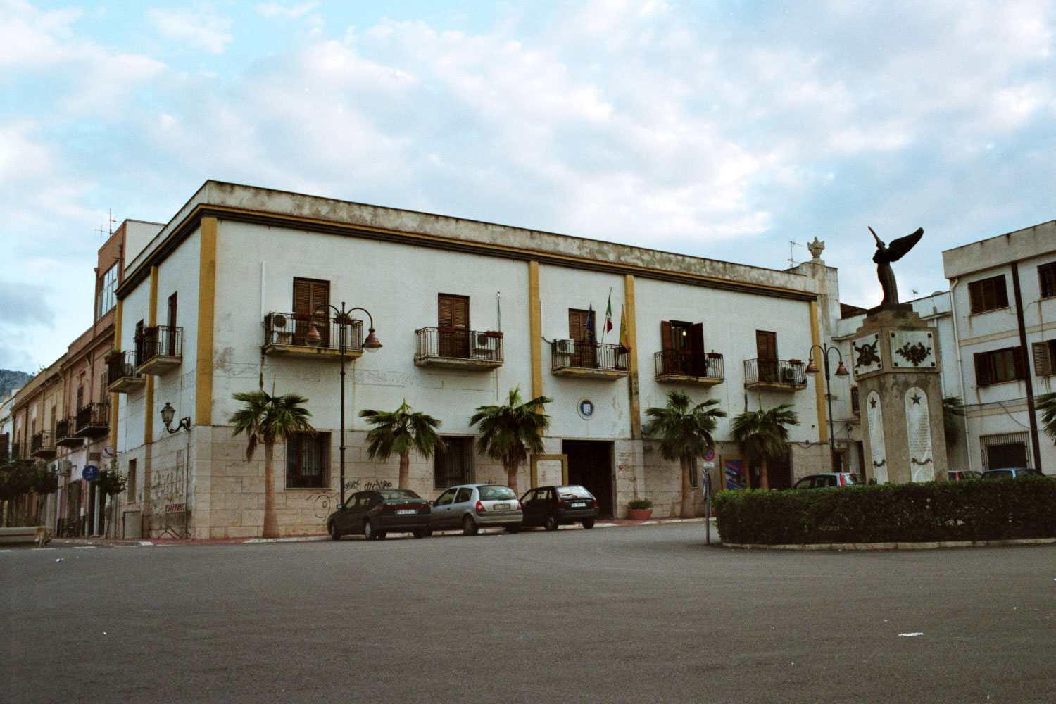 Terrasini, Italy: Palazzo Grua, town hall of Terrasini